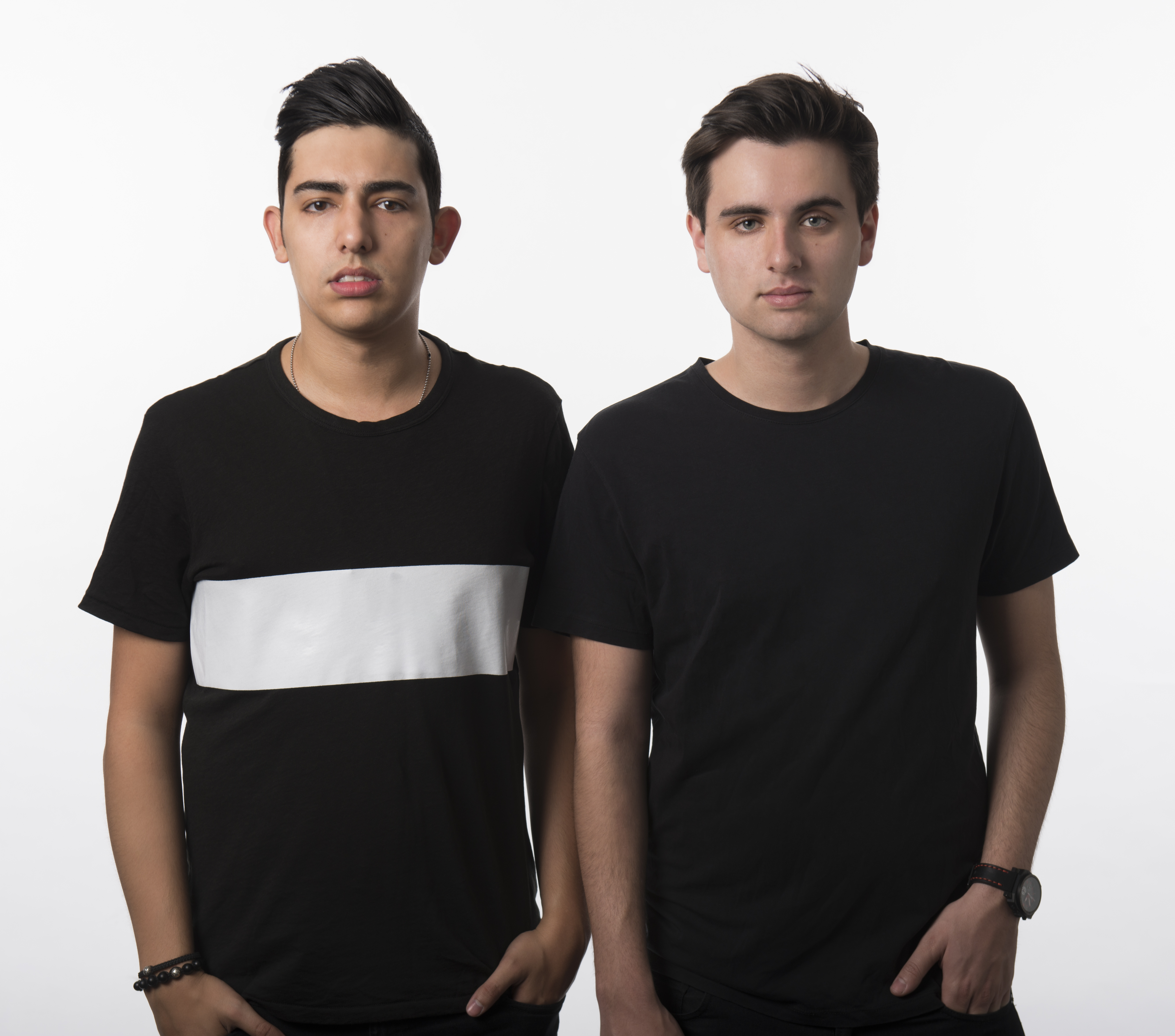 Dzeko & Torres photographed by ReubenKleiner